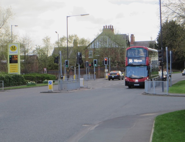 Harrogate Road, Ripon